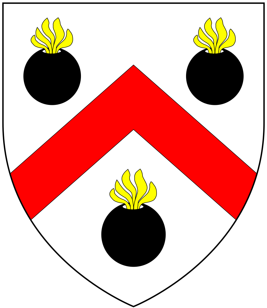 Canting arms of Ball of Mamhead, Devon: Argent, a chevron gules beween three fire balls proper. As seen in 19th c. stained glass window in Mamhead Church. Blazoned with chevron sable and with difference of a martlet in Vivian, Lt.Col. J.L., (Ed.) The Visitations of the County of Devon: Comprising the Heralds' Visitations of 1531, 1564 & 1620, Exeter, 1895, p.35.